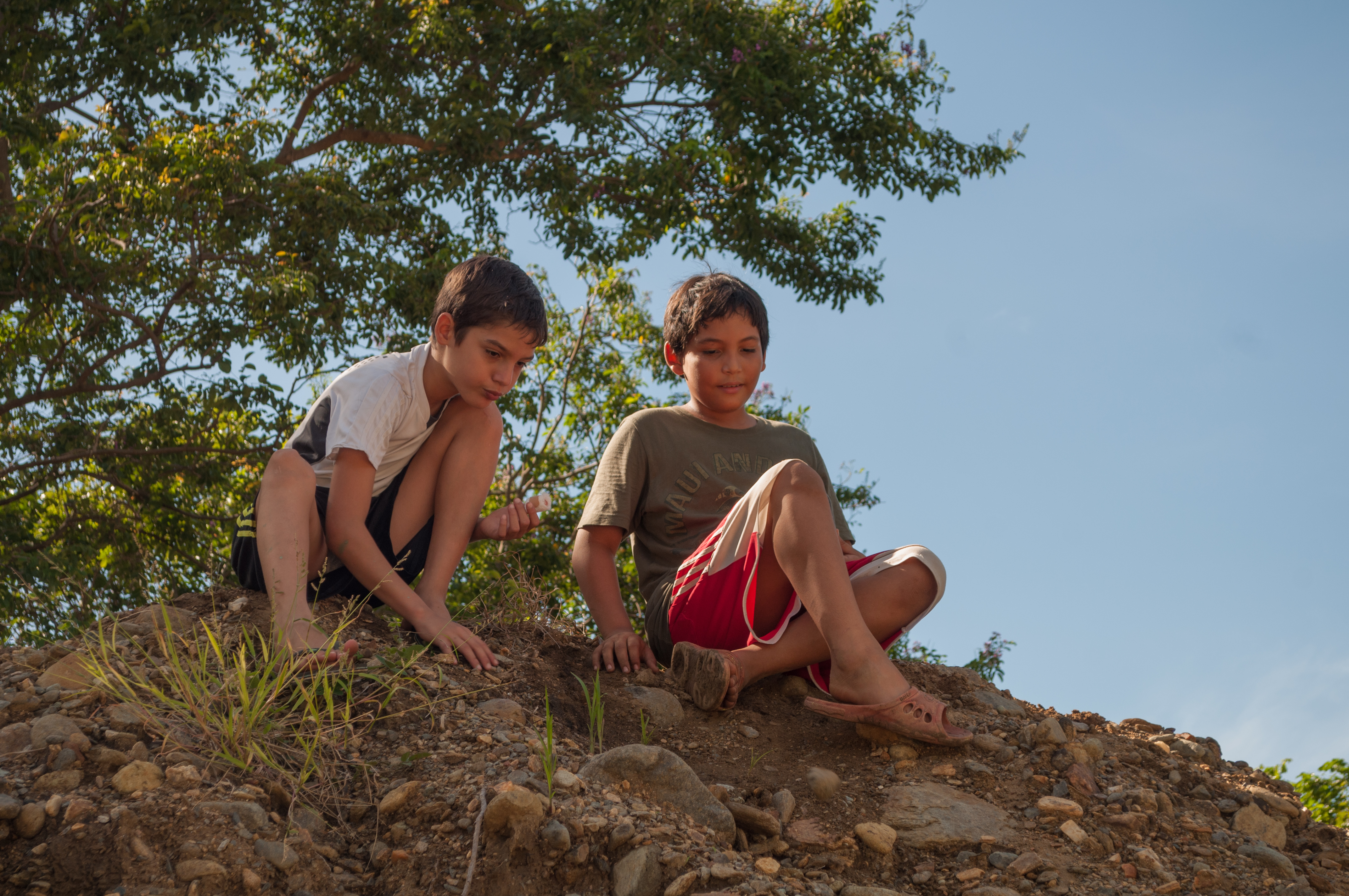 Dos niños en las laderas del río de San Juan Bautísta. Se puede observar el típico niño que habita en la isla de Margarita, en este caso es un tío con su sobrino, el tío es el niño de la derecha. Los niños de esta población se reúnen a jugar a los alrededores del río, ellos prefieren actividades con animales como perros o chivos en lugar de jugar juegos electrónicos. Los montículos de piedra son acumulaciones ocasionadas por el deslave del río de San Juan [1]